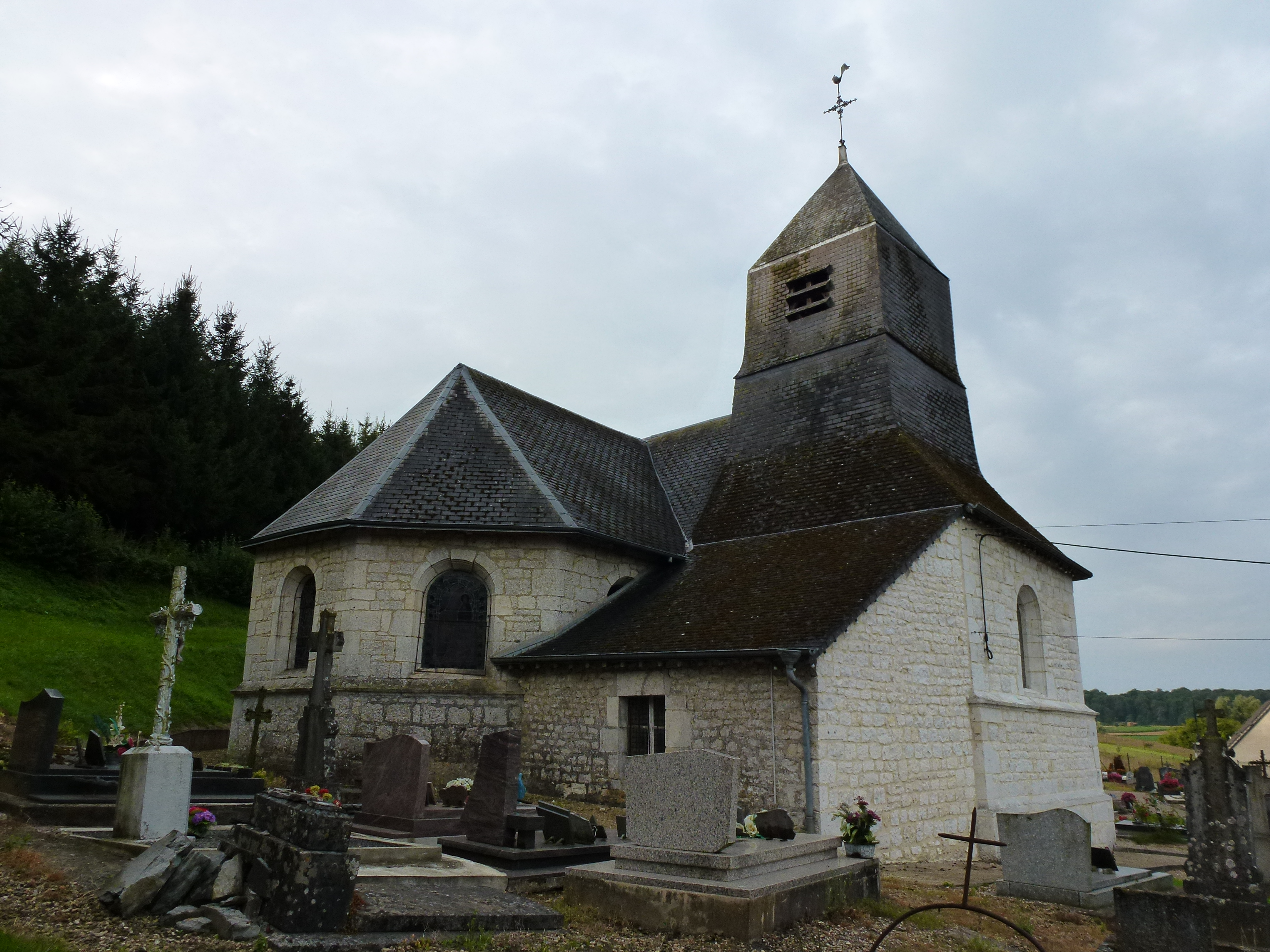 Logny-Bogny (Ardennes) église Saint Remacle, chevet